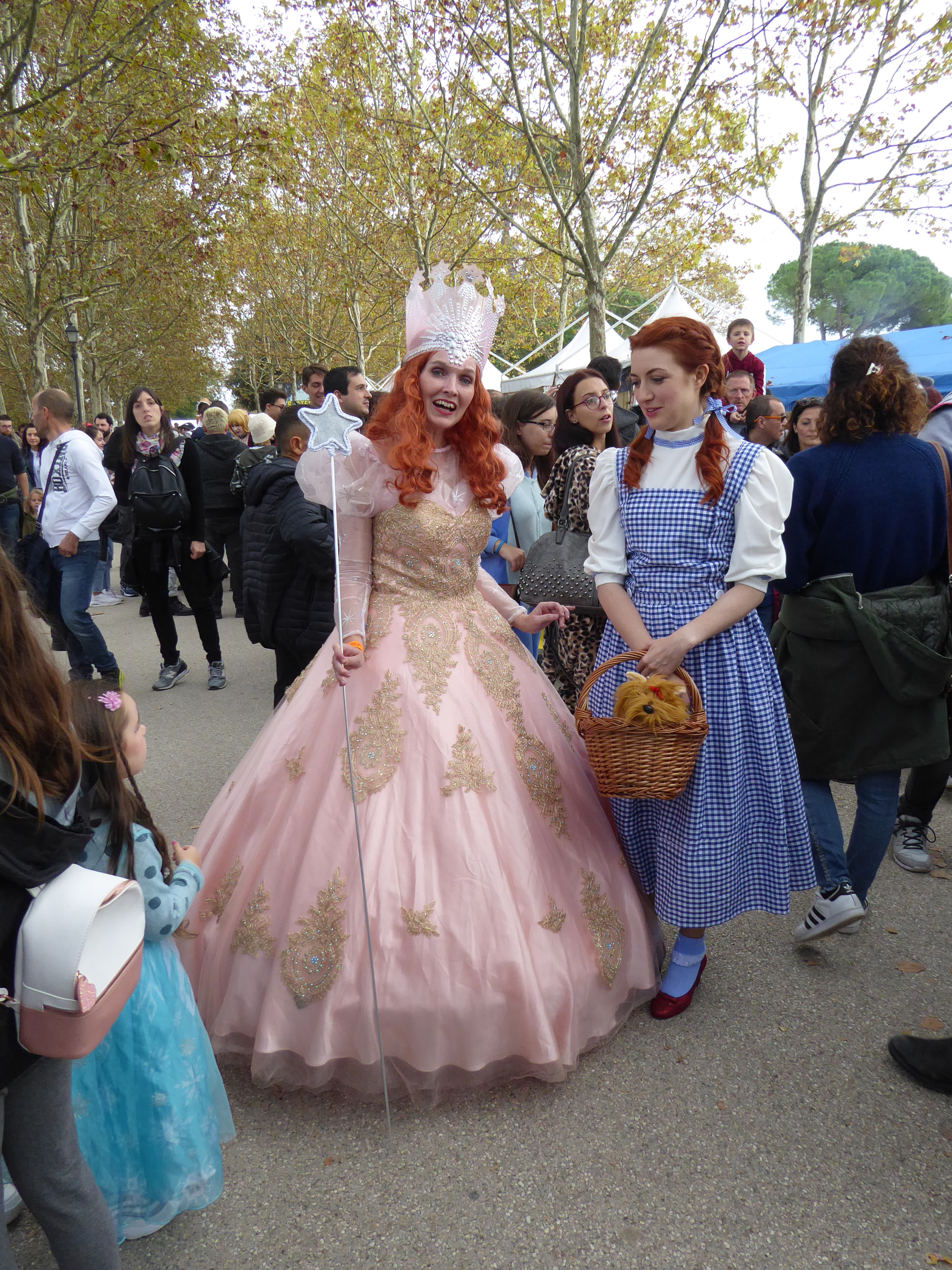 Lucca Comics & Games 2019 - Cosplay of Dorothy and the Good Witch of the North from The Wizard of Oz